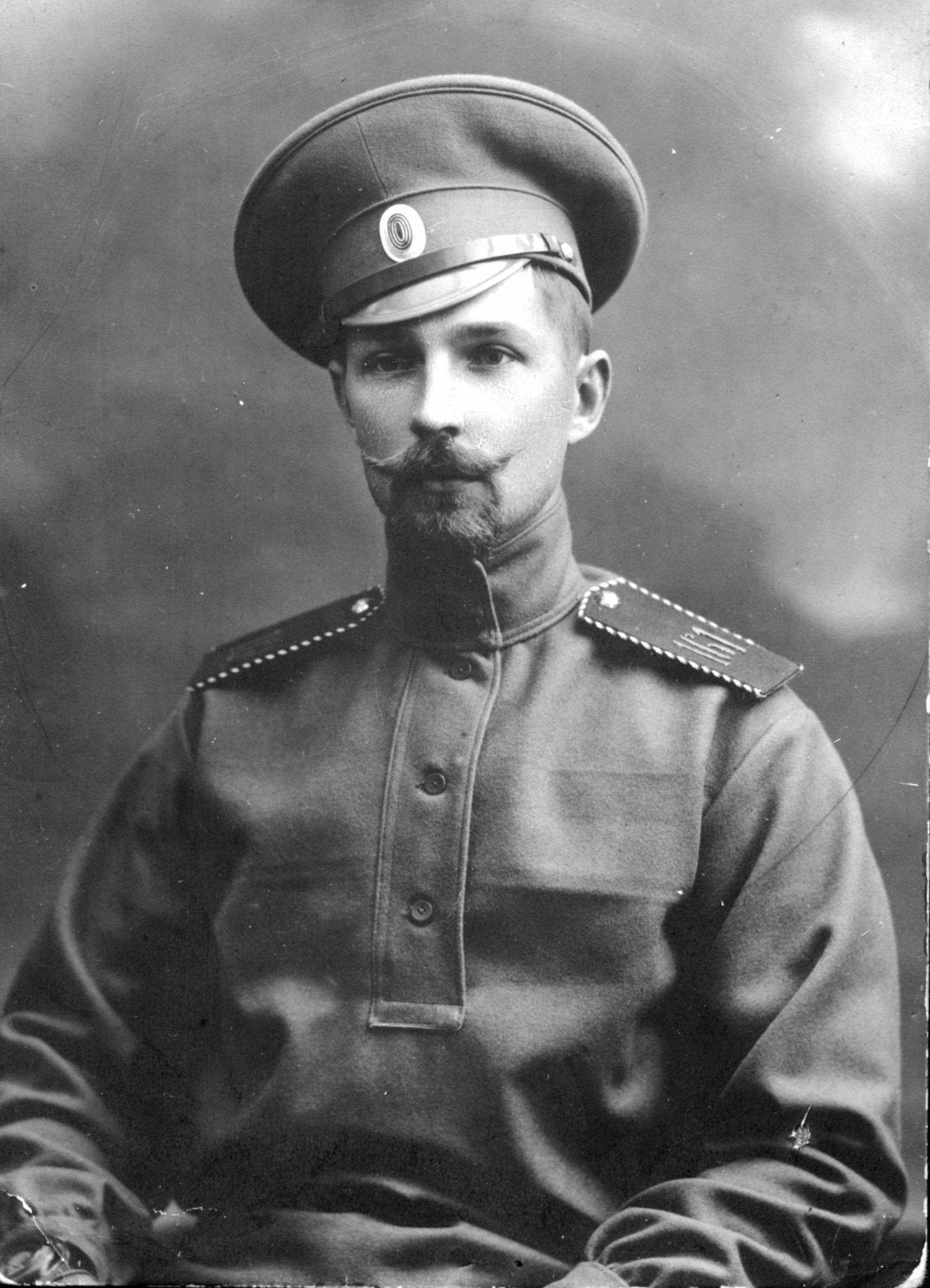 Rukhlov, Igor Sergeyevich